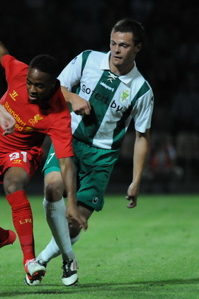 Belarusian football player Vadzim Dzemidovich (Вадзім Дземідовіч)during 3rd round UEFA Europa League qualifier FC Gomel - Liverpool F.C.